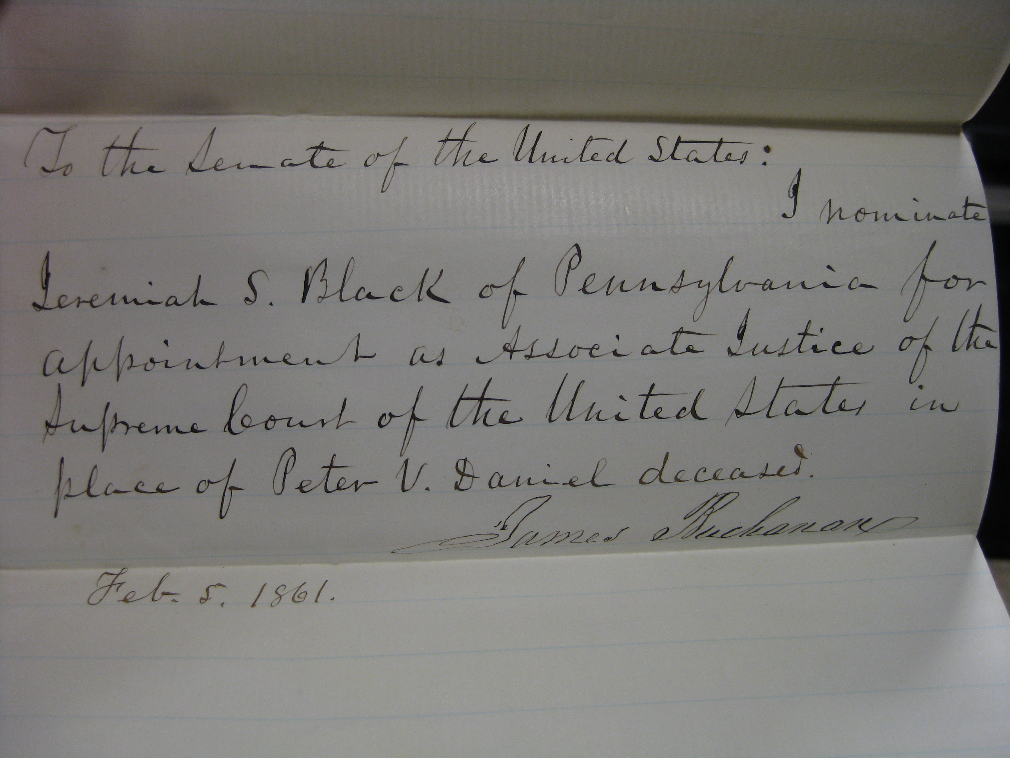 James Buchanan's nomination of Jeremiah Black to serve on the U.S. Supreme Court. Courtesy of the National Archives and Records Administration.